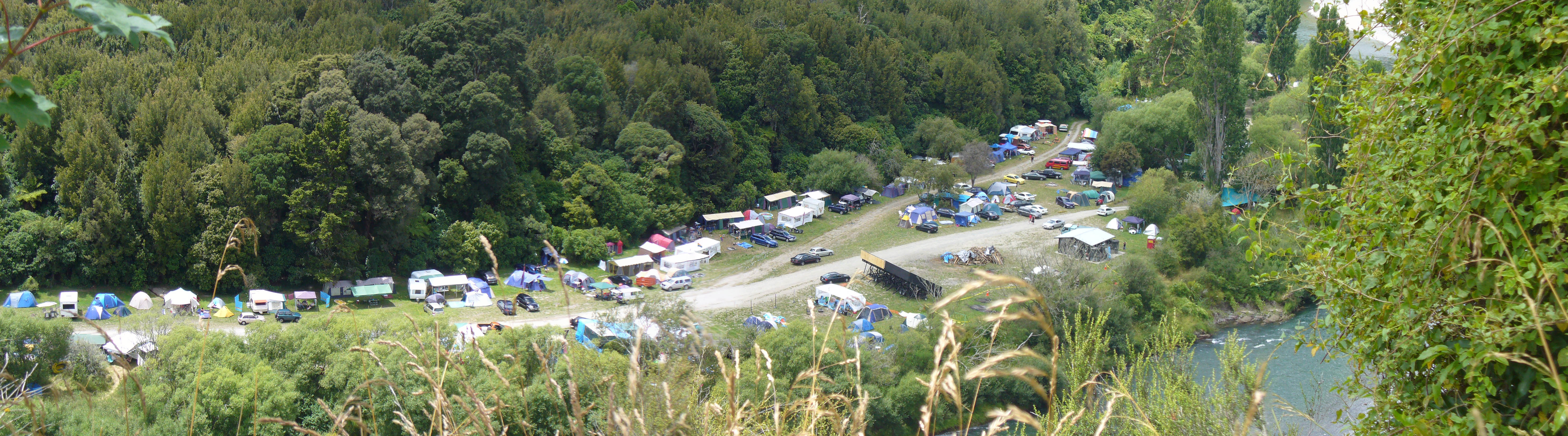 This was taken by me, Calum Bennachie, who holds the copyright. I provide this image to Wikipedia for free and fair use. It was taken between 1312 and 1313 NZ Summer time on 31 December 2008, from the West bank of the Rangitikei River over looking the Vinegar Hill Campsite from a point approx 39°56'06.90"S 175°38'14.20"E, and is a composite panorama of 3 images taken on a Panasonic DMC-LZ5 at f/5.6 with shutter speeds of 1/125 to 1/160sec and ISO-80.